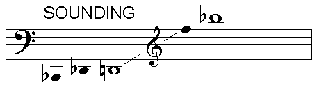 Image by User:Special-T detailing the sounding range of a bass clarinet. Made using Finale 2000 and Adobe Photoshop 4.0 LE. I'm uploading this in his name with a most liberal license I can as requested.